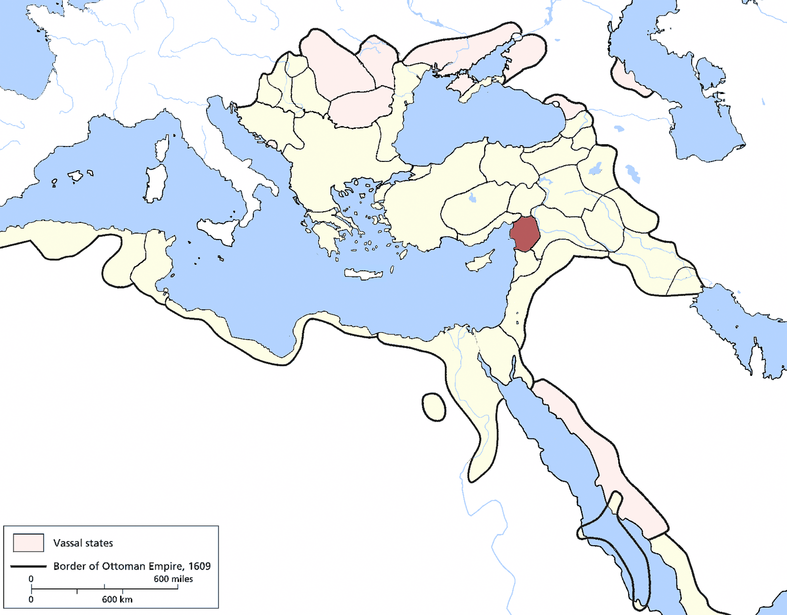 Eyalet of Aleppo — of the Ottoman Empire, in 1609. Source: Encyclopedia of the Ottoman Empire at Google Books By Gábor Ágoston, Bruce Alan Masters